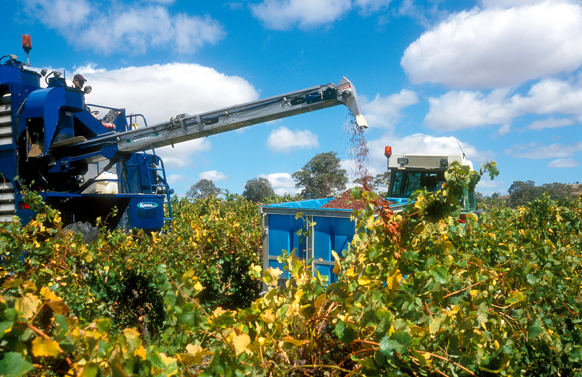 Grape harvesting machinery in operation at a vineyard in the Eden Valley, SA. 2004.